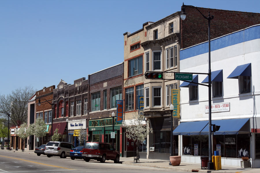 Downtown Beloit, Wisconsin, United States.